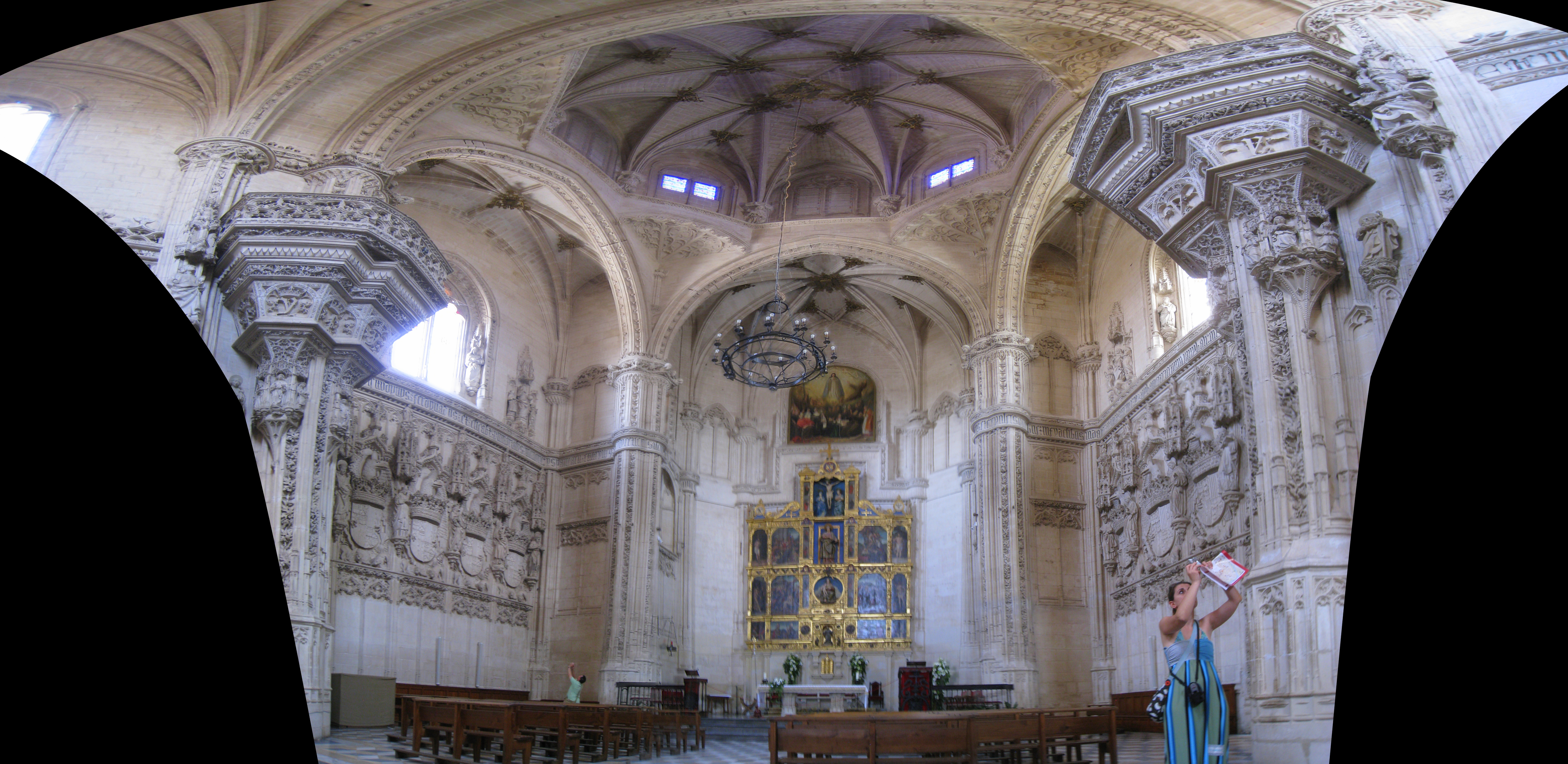 Stitched panorama of San Juan de los Reyes, Toledo, Spain.